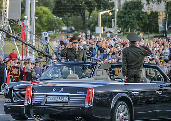 Командующий войсками ЗВО проверил готовность военнослужащих к параду в Минске, посвящённому Дню независимости Белоруссии